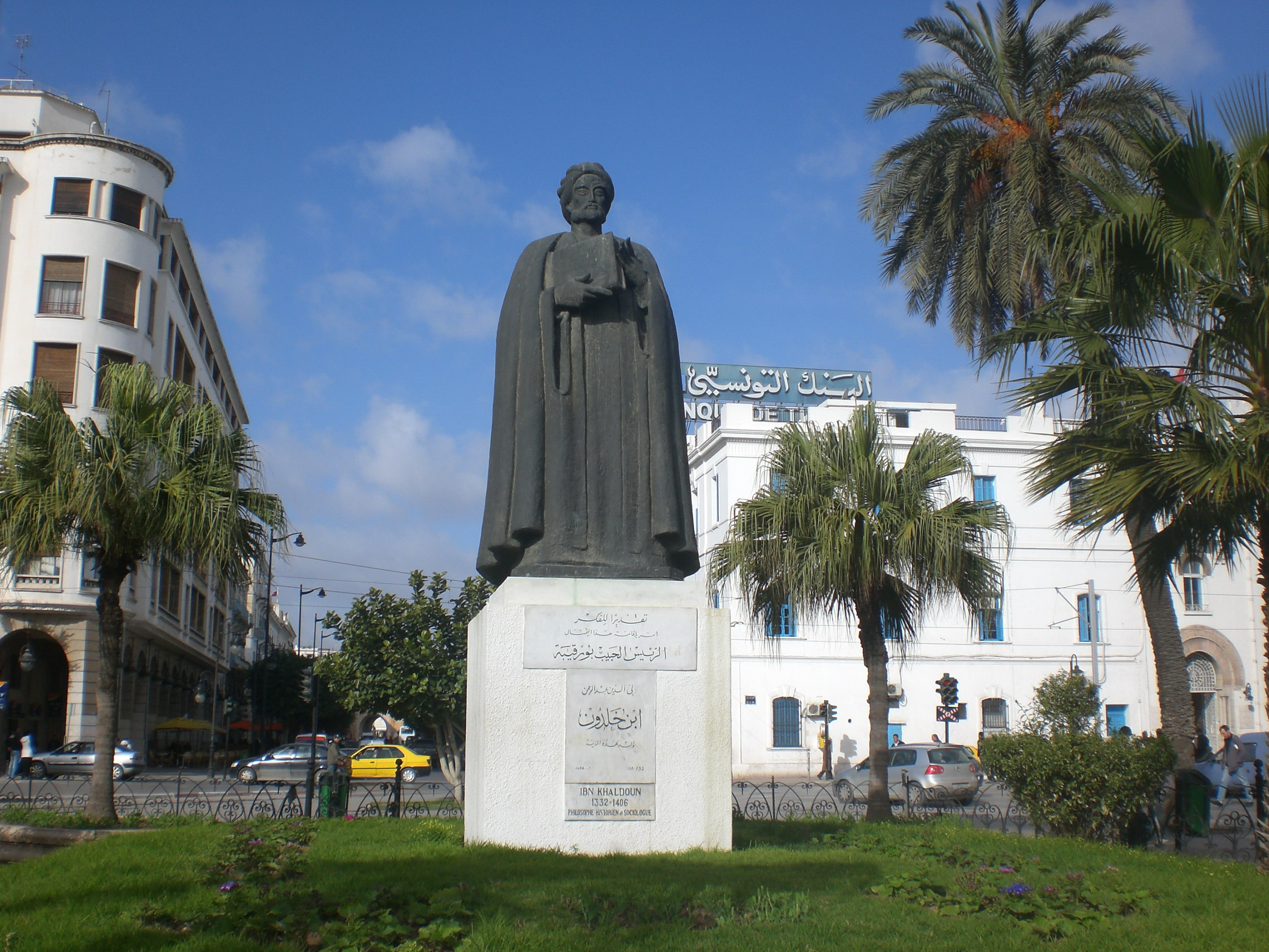 The statue of Ibn Khaldoun